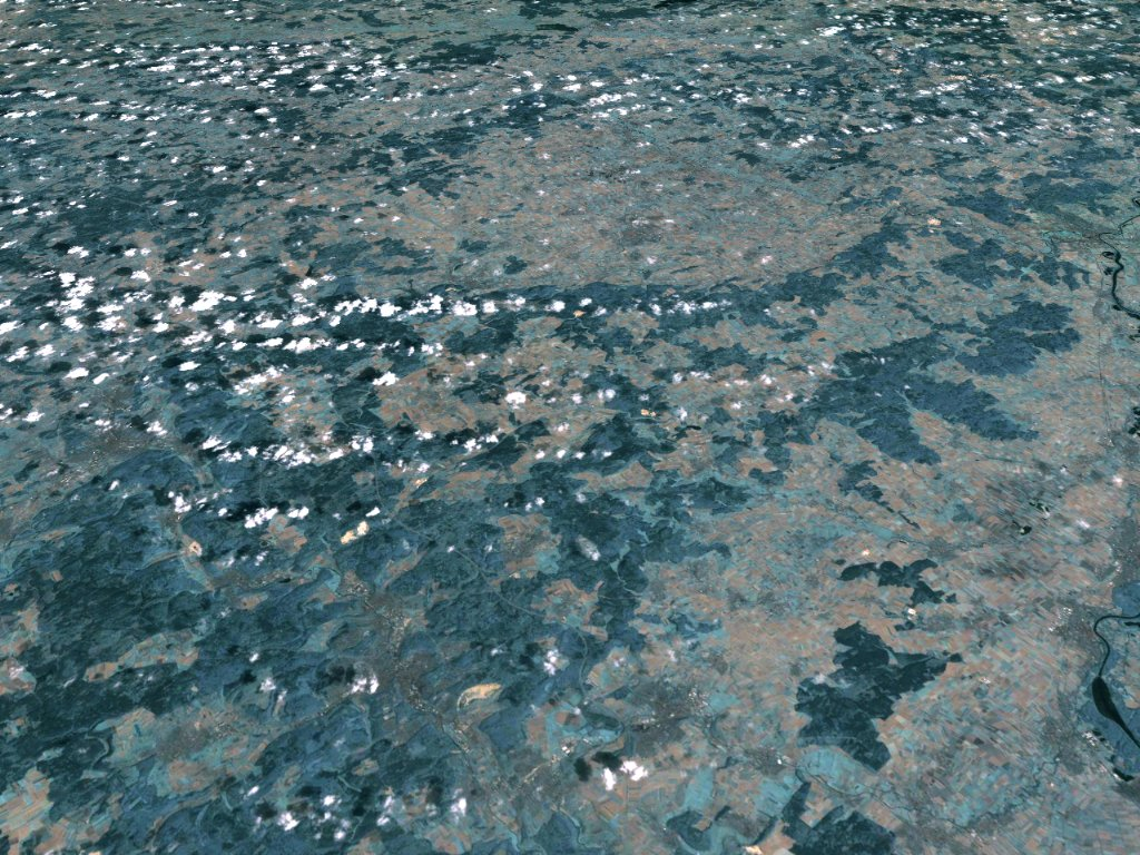 Nördlinger Ries (large, circular feature in the background) and Steinheim Basin (in the foreground at left), view from southwest.